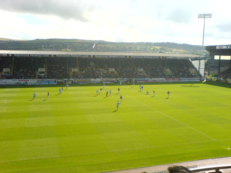 This photograph of the Bob Lord Stand at Turf Moor was taken by Paul Sagar